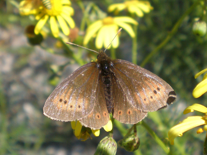 Near Canillo, Andorra - August 17, 2007